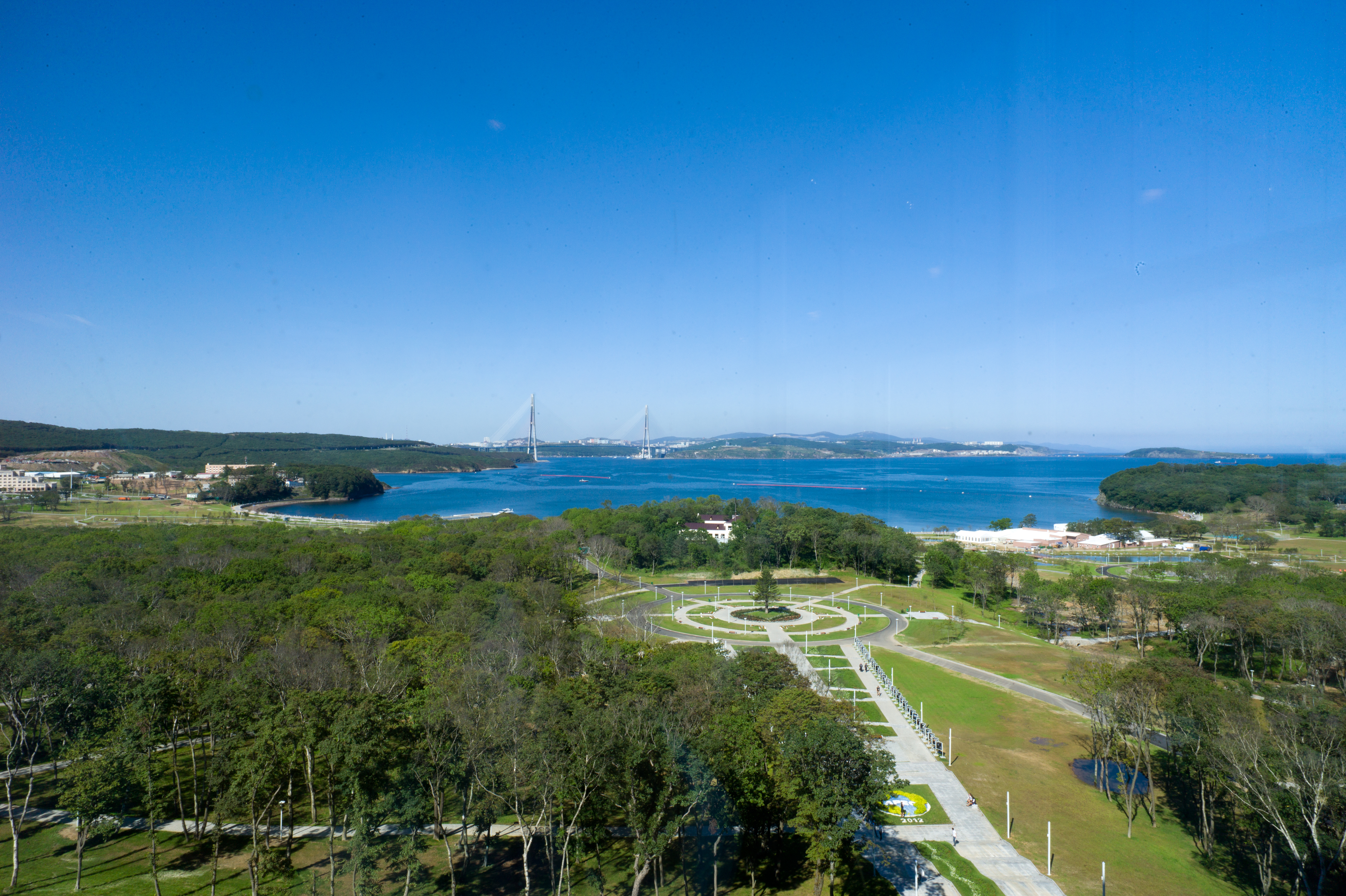 [State Department photo by William Ng]